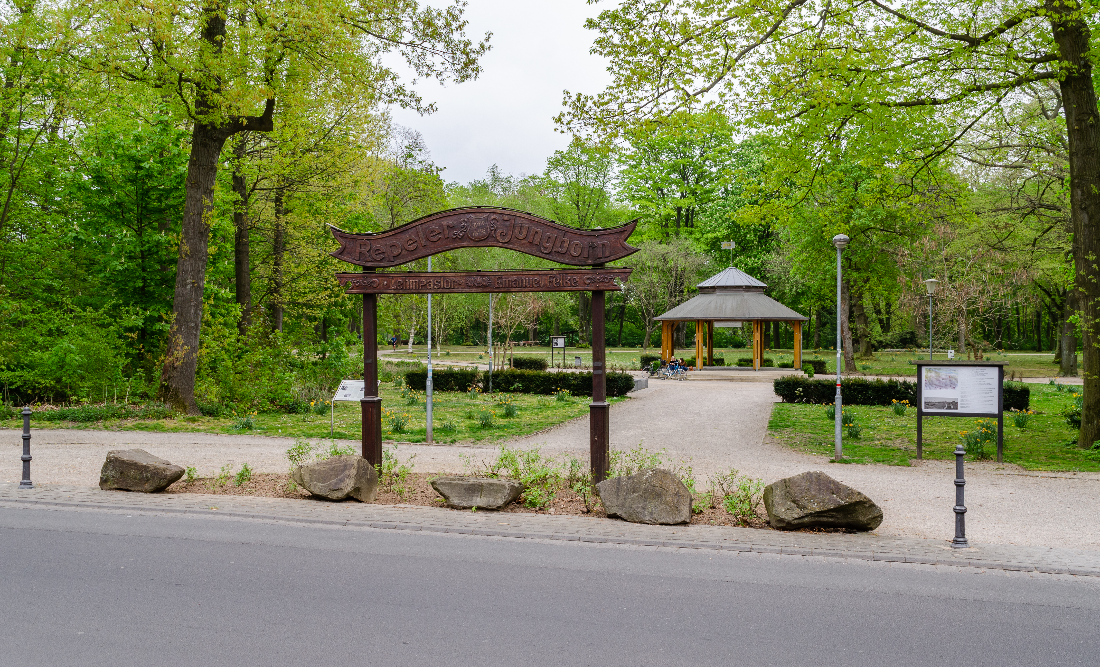 Moers (North Rhine-Westphalia, Germany) – district Repelen – park “Jungbornpark” – entrance